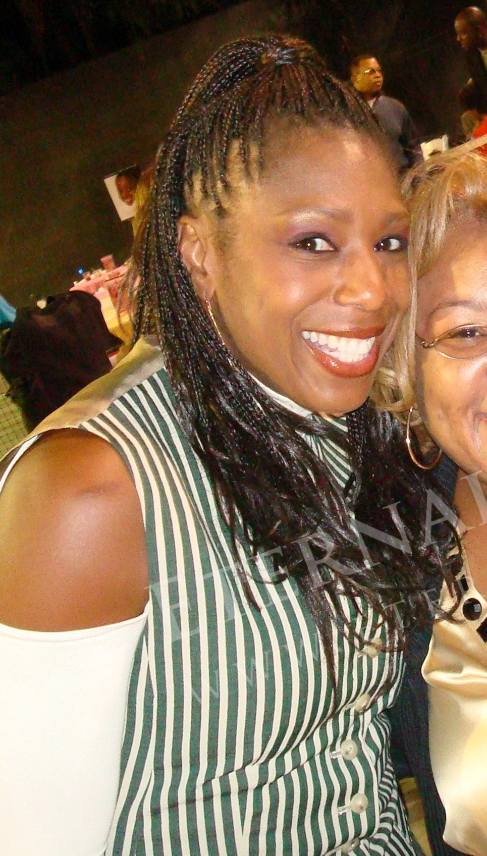 Actress Dawnn Lewis